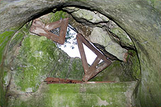 Operation Tracer, Gibraltar. Eastern observation post over Mediterranean. Interior view with pieces of camouflage.